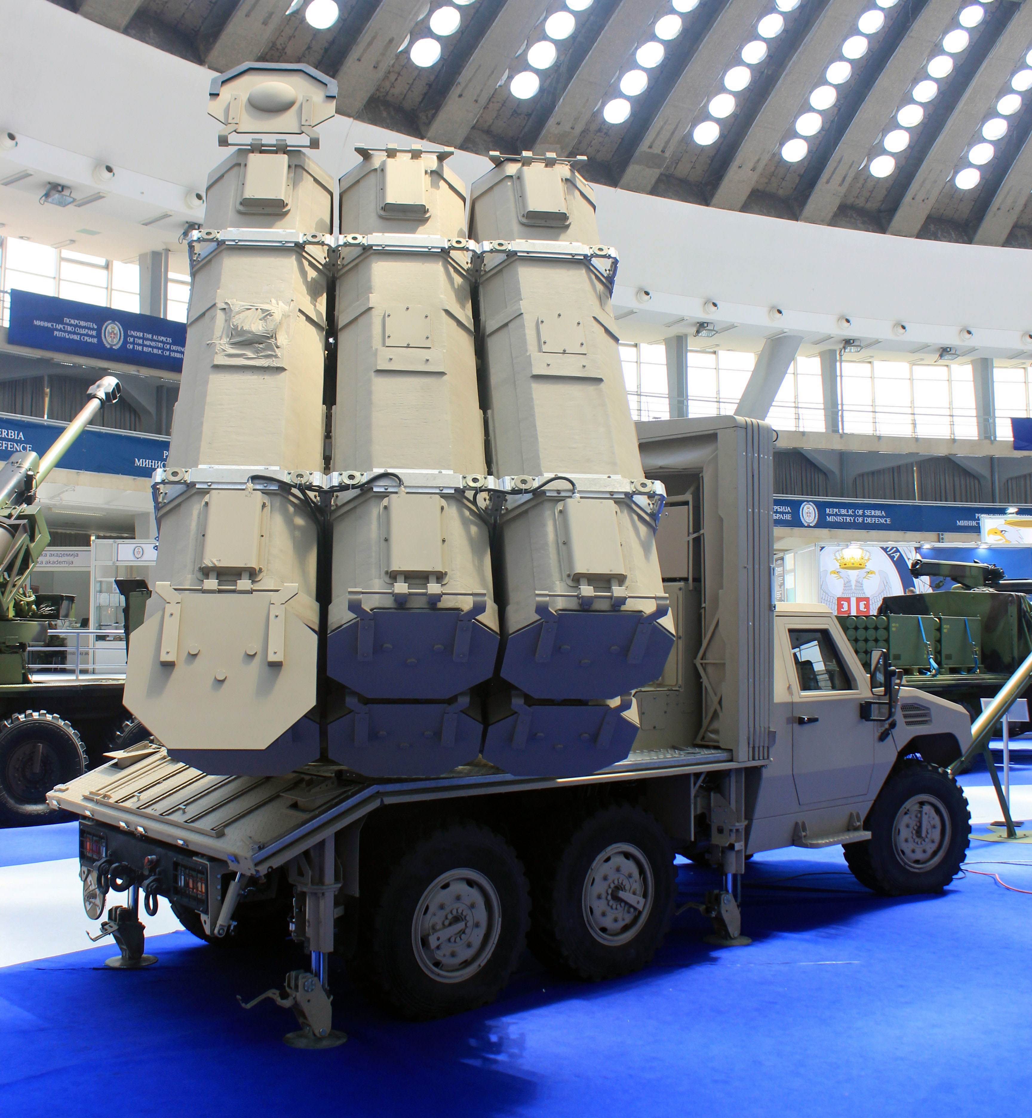 ALAS guided missile launch vehicle on Nimr vehicel chassis on display at "Partner 2017" military fair.